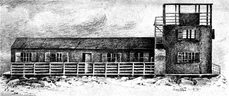 Alpine hut Capanna Regina Margherita in 1903